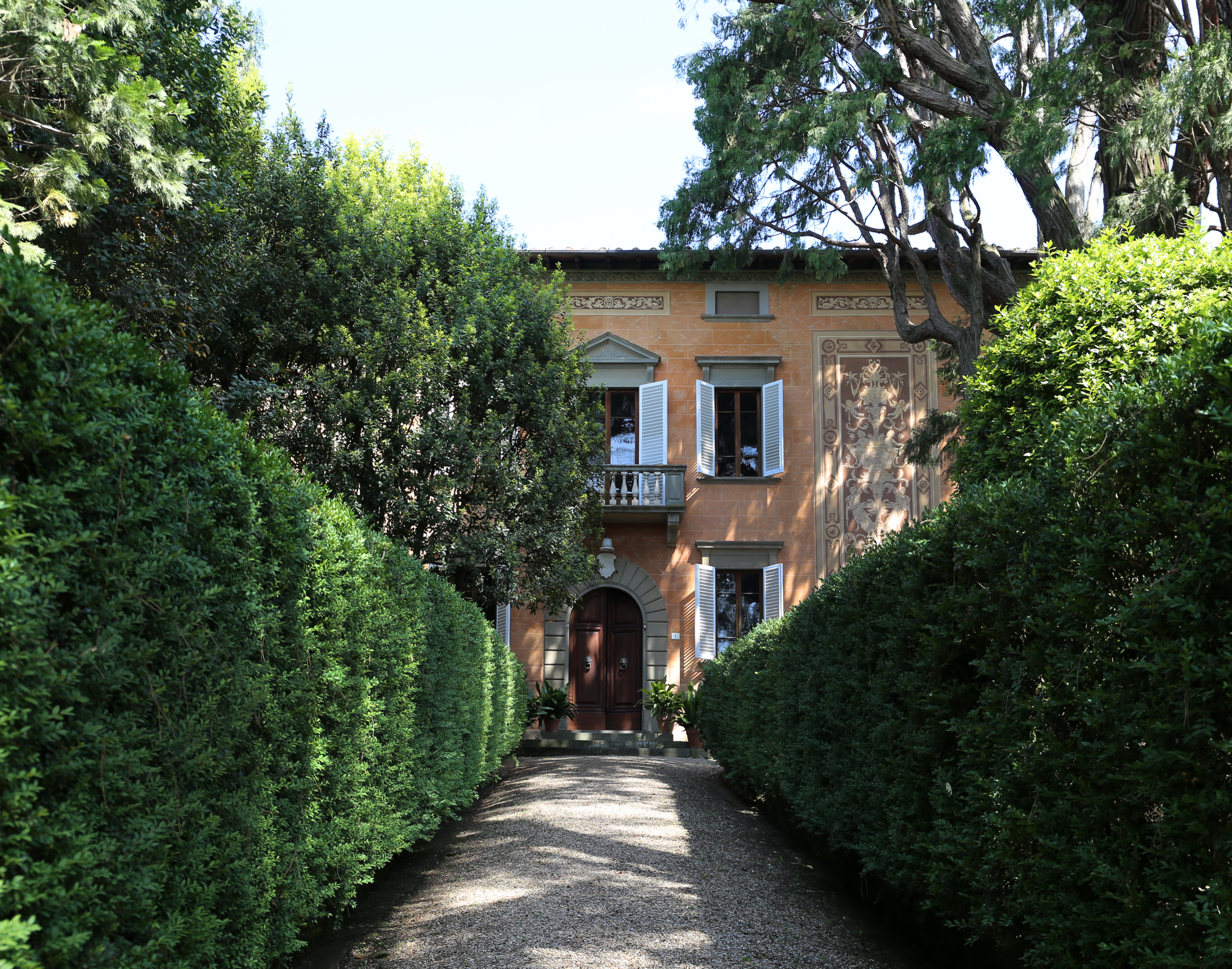 Buildings in Buggiano